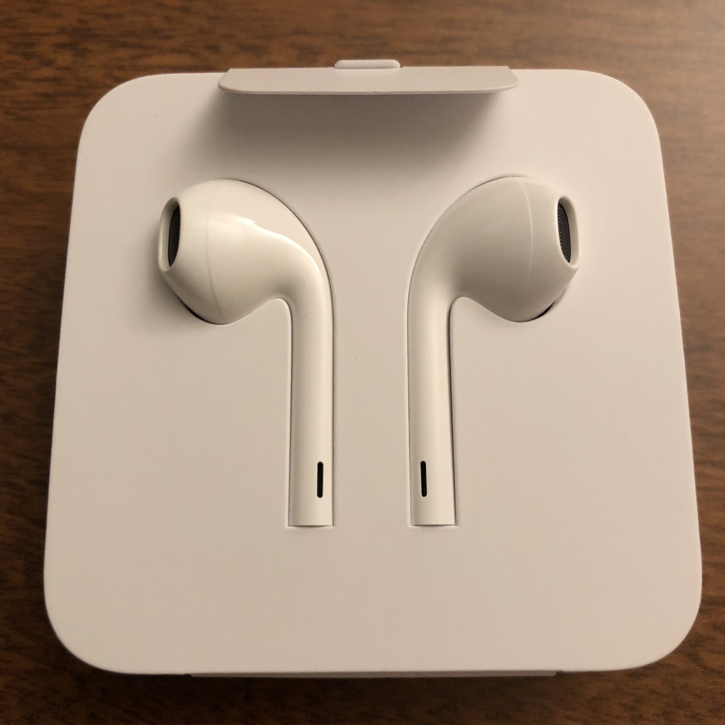 EarPods